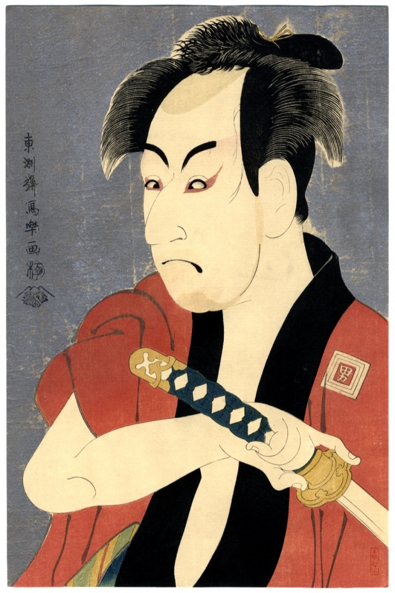 Colour woodblock print Ichikawa Omezō as Yakko Ippei in the kabuki play Koi Nyōbō Somewake Tazuna by Japanese ukiyo-e artist Tōshūsai Sharaku (reprint)